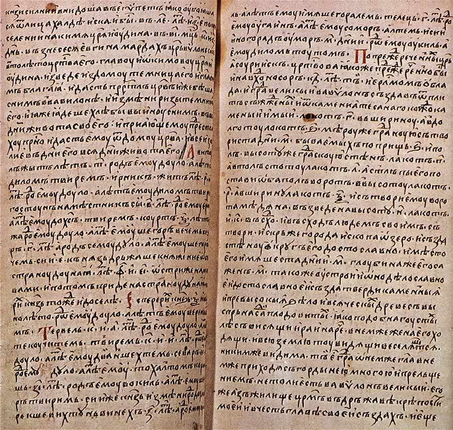 Nominalia of the Bulgarian khans, Moscow (sinodic) manuscript, No. 280, Moscow State Historical Museum